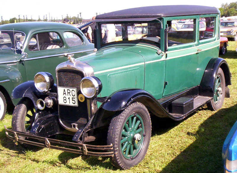 Pontiac New Series 6-28 8240 2-Door Sedan 1928